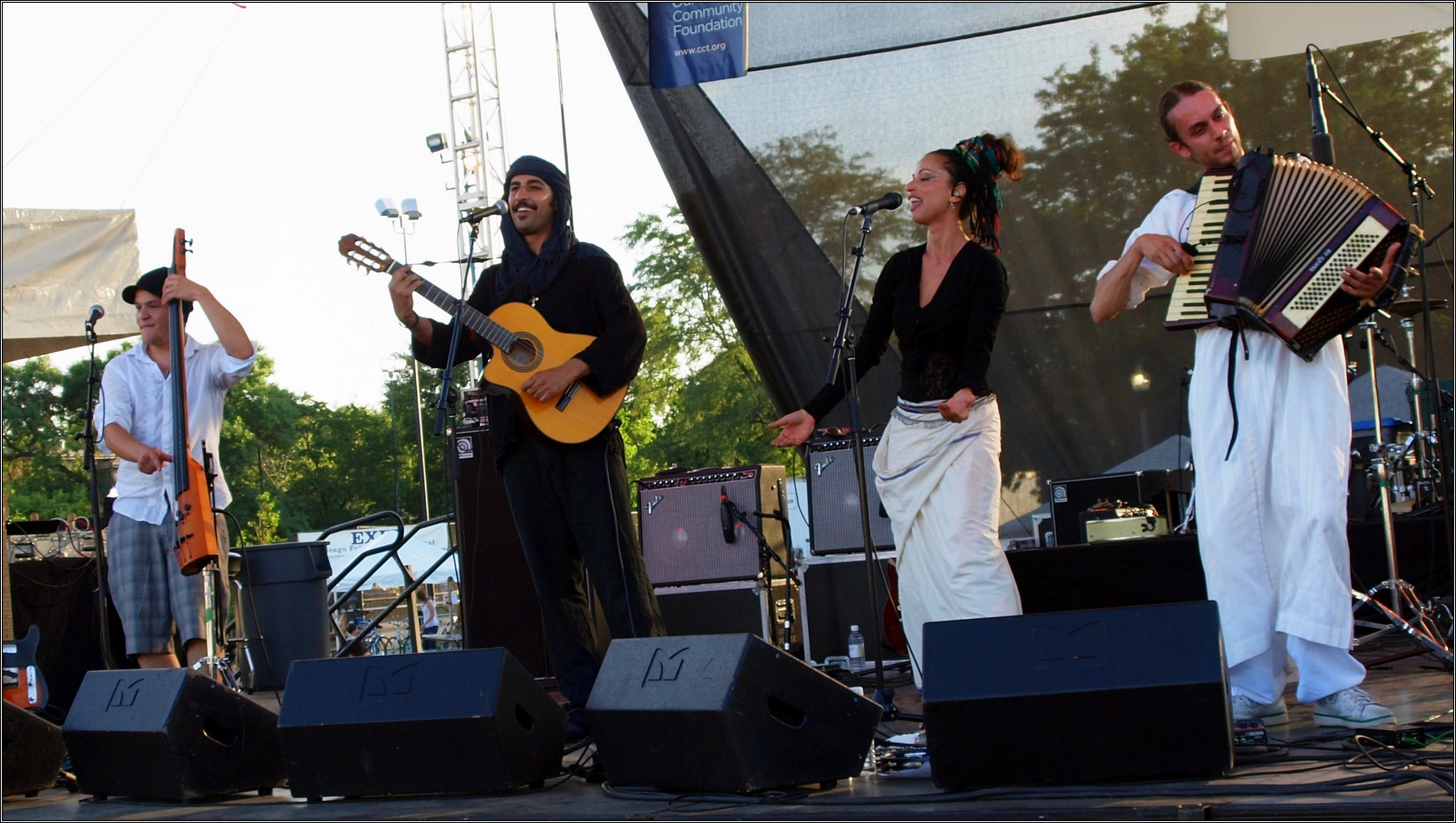 Day 2 of the 12th Annual Chicago Folk & Roots Festival Matt (bass), Soupa Ju (guitar, vocals), Sista K (vocals), and Suprême Clem (keyboards & accordion)